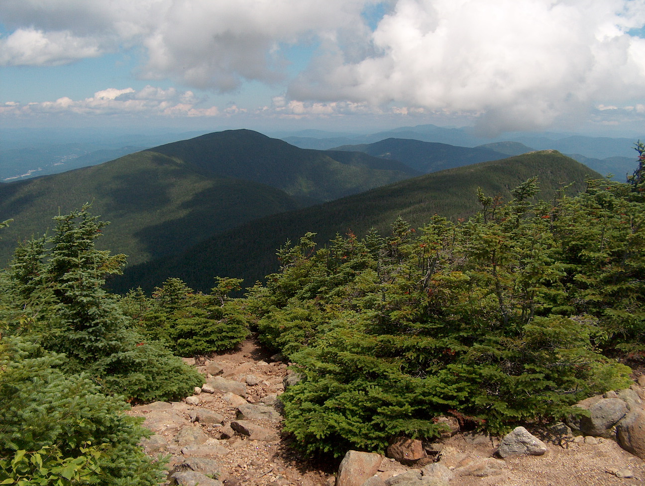 Mount Hight (right) in Carter-Moriah Range, White Mountains (New Hampshire). Photo by Ken Gallager, July 25, 2008.